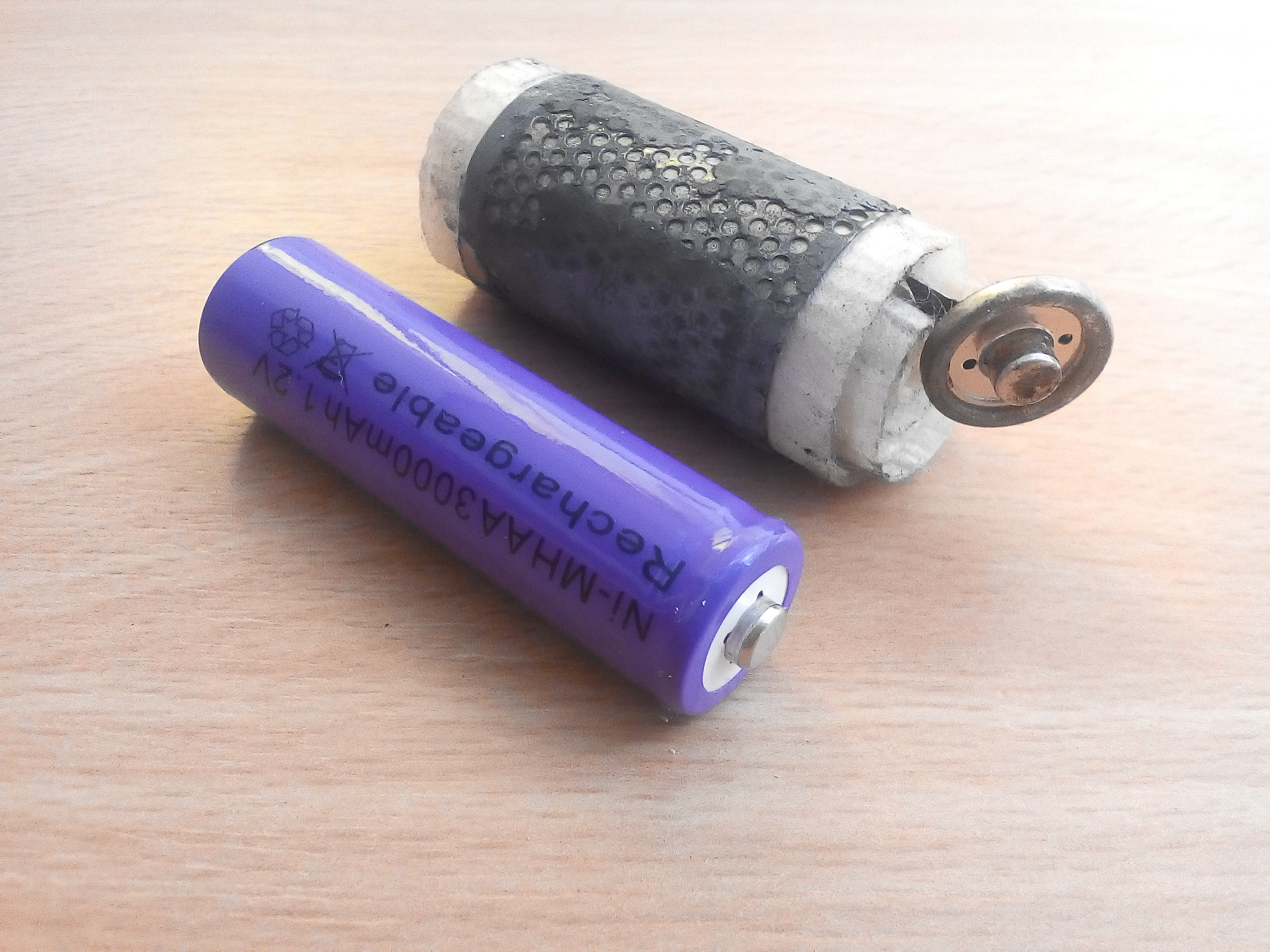 Nickel–metal hydride battery